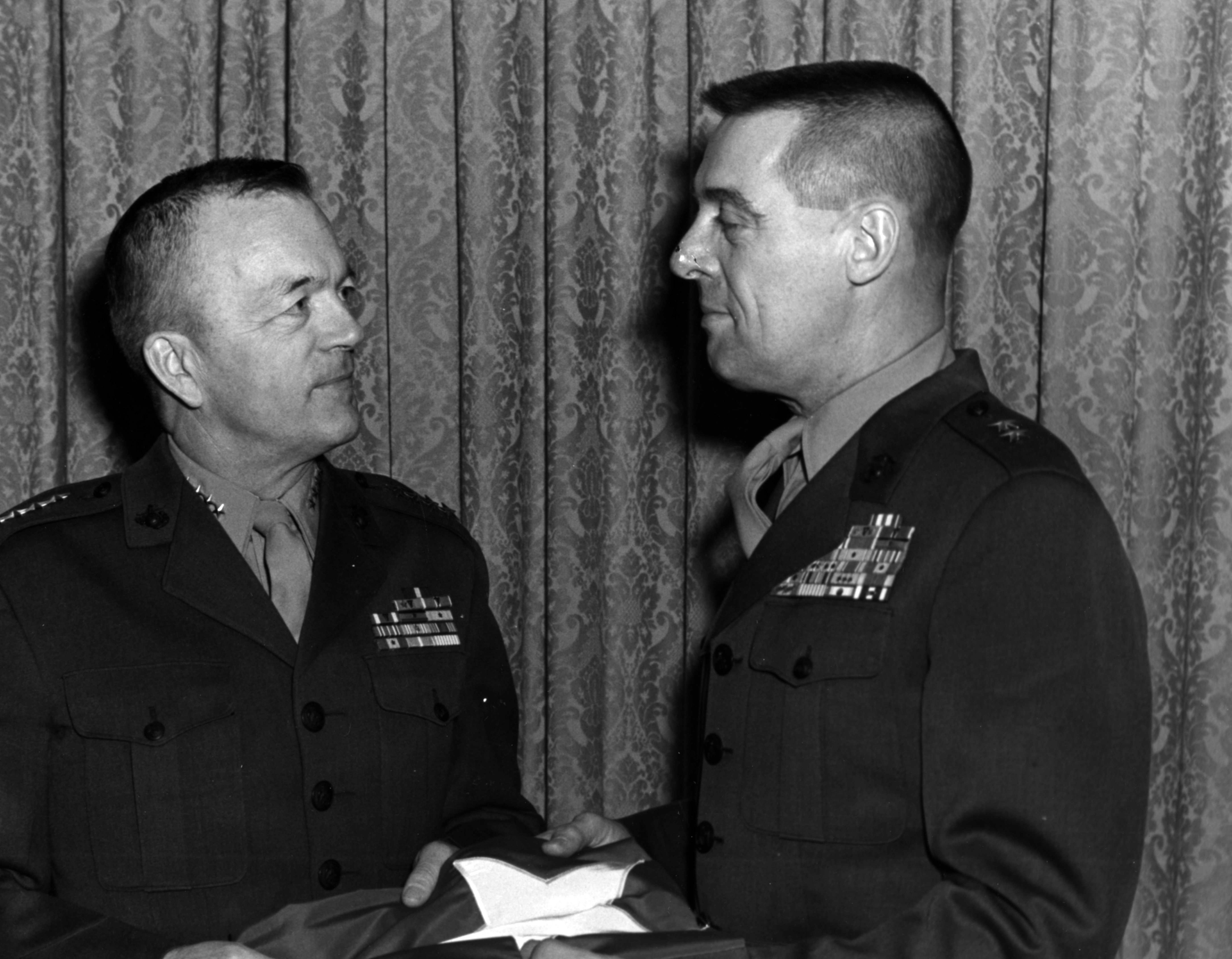 Commandant of the Marine Corps, Leonard F. Chapman Jr. presents recently promoted Major general Jonas M. Platt with his new two-star flag, following ceremonies in which Major general Platt was promoted to his present rank. The ceremonies took place in the Office of the Commandant at Headquarters Marine Corps in Washington, D.C.